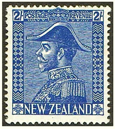 New Zealand postage stamp, KGV, 1926 issue, blue, 2p